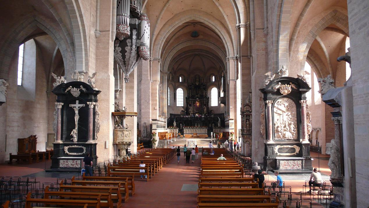 Inside the Trierer Dom